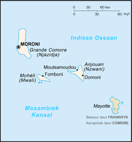 An Afrikaans map of the Comoros.